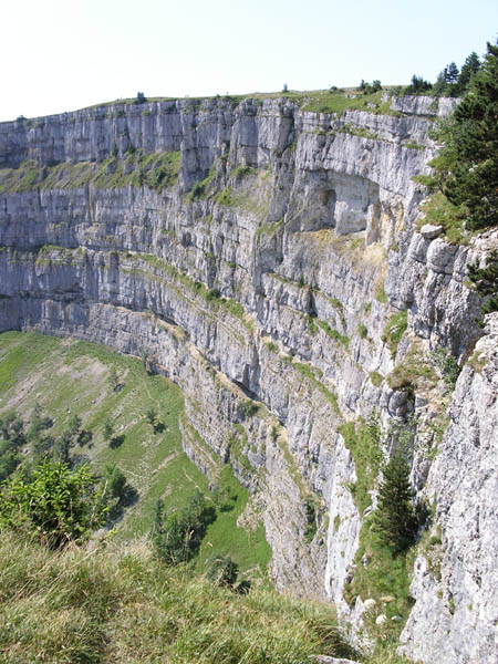 Creux du Van, Karst topography in the Jura Mountains (Canton of Neuchâtel, Switzerland).